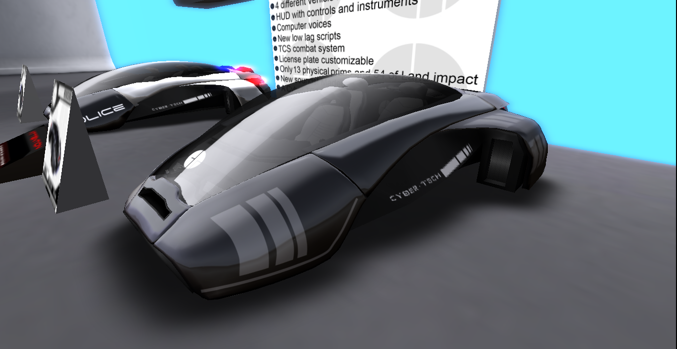 We don't have any name for this kind of vehicle, but this is a vehicle which can both hover over ground and can fly in the air, but not made for being in space, and also has a combat system. This model is called Mercure (not Mercury nor mercury as the chemical element). Behind it lies a same model but as a police vehicle, and customed for the requirements of a police vehicle. The picture is taken in the virtual world of Second Life 25 October 2013.